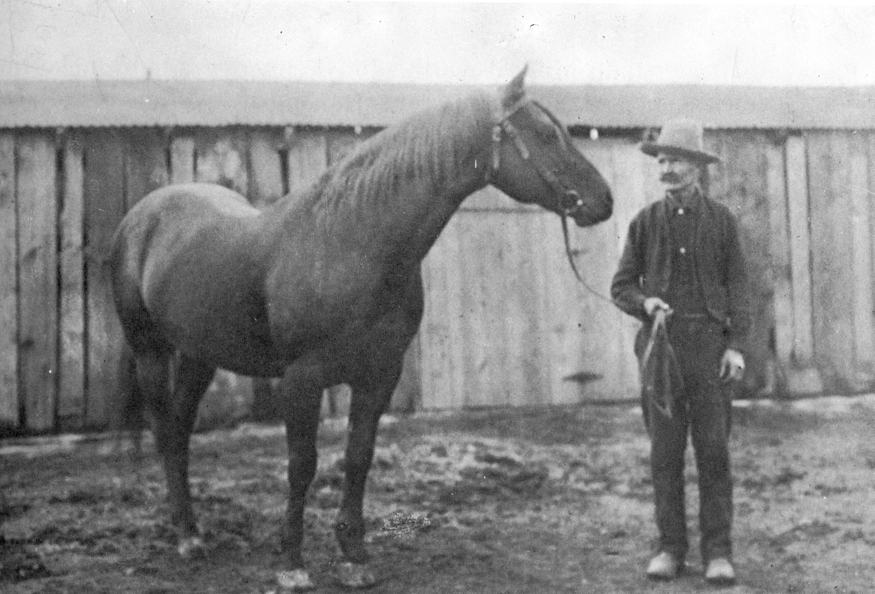 Peter McCue (1895–1923), the Quarter Horse and/or Thoroughbred, with Tom Caudill holding, taken in Oklahoma around 1905.